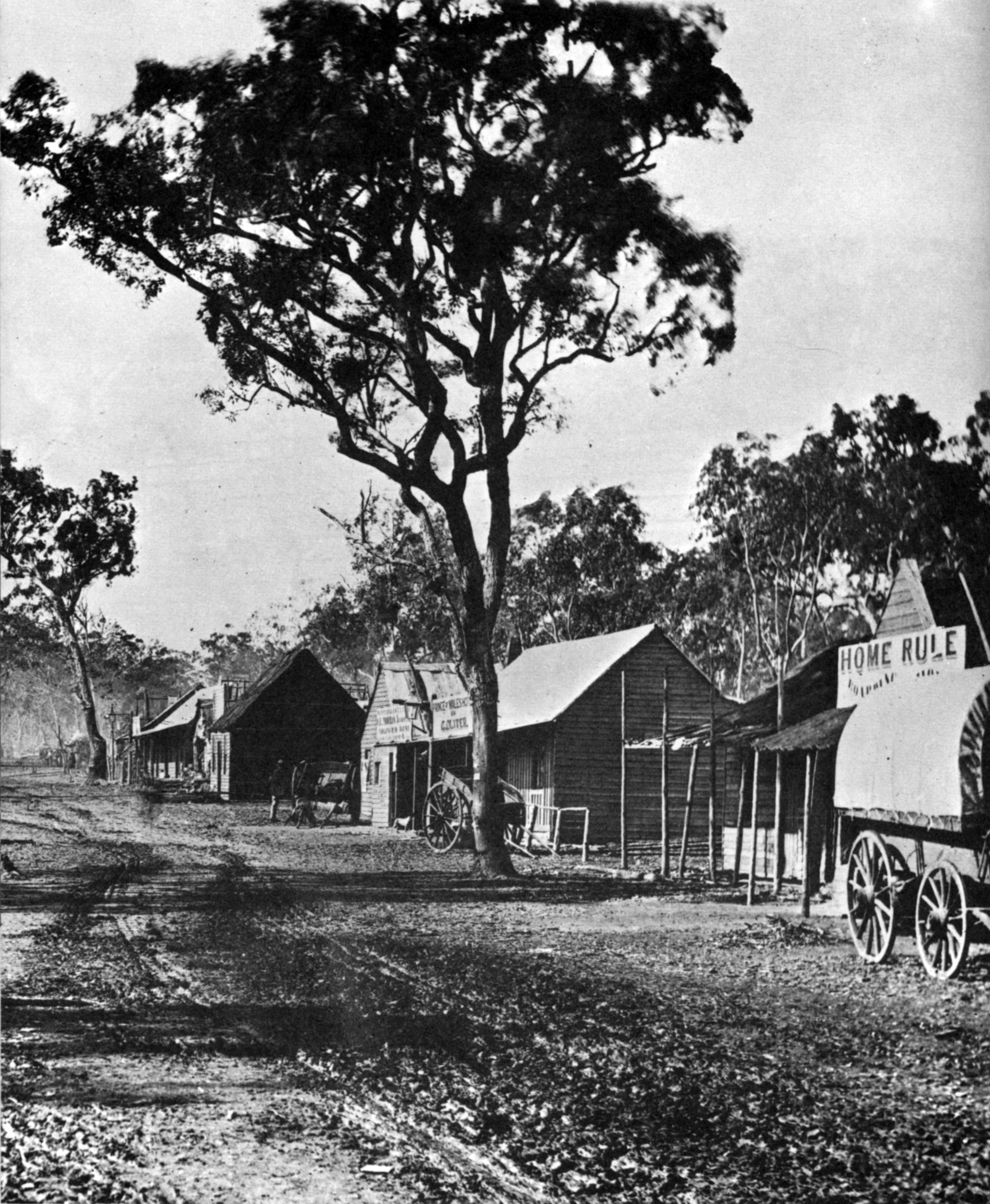 photograph taken c.1872 of shops at Home Rule, New South Wales. Part of Holtermann Collection.